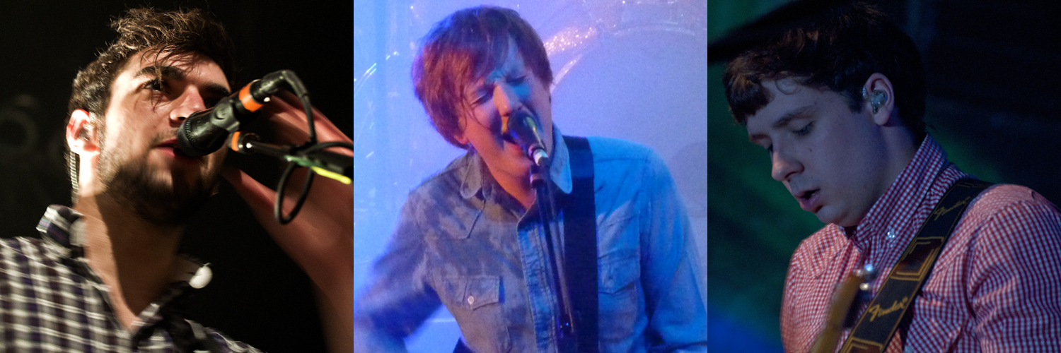 The lead guitarist of Two Door Cinema Club, Sam Halliday.